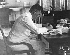 Arrhenius, Olof (Sweden 1896-1977), agricultural chemistry